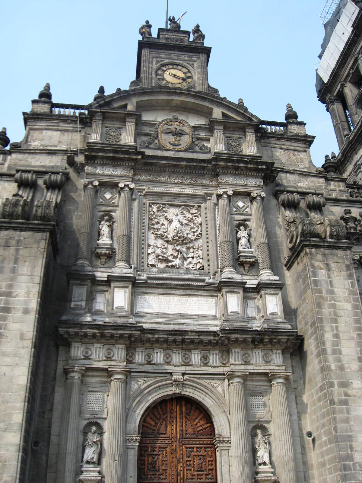 Colonial Spanish Baroque style facade — main portal of the Metropolitan Cathedral of Mexico City.